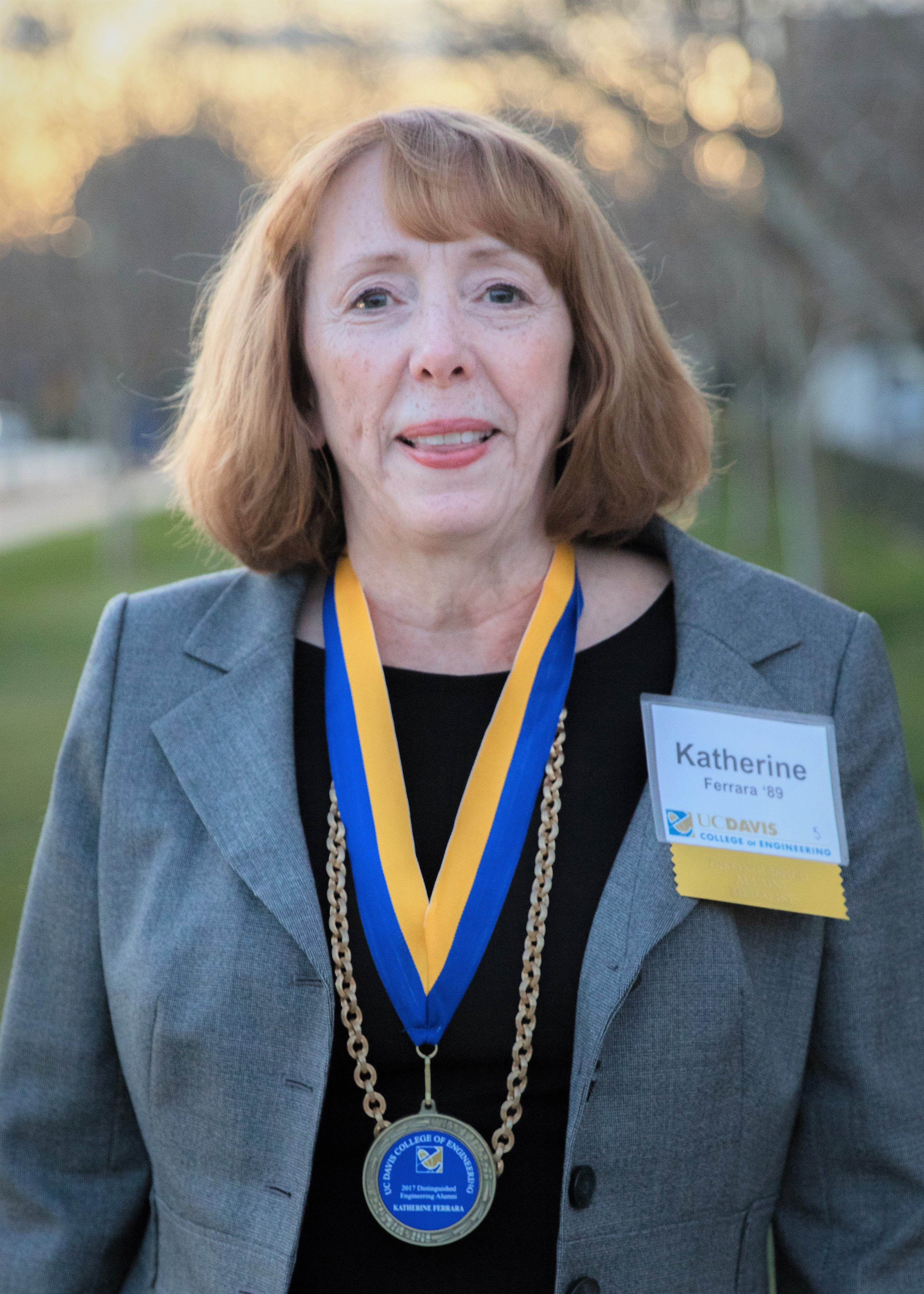 2017 Distinguished Engineering Alumni Medal recipient Katherine Ferrara, Distinguished Professor, Biomedical Engineering, Ph.D. Electrical Engineering, ‘89. The College of Engineering hosted their 2017 Distinguished Engineering Alumni Medal (DEAM) ceremony and alumni celebration on Friday, January 19, 2018 at the UC Davis Mondavi Center. (Reeta Asmai/ UC Davis)